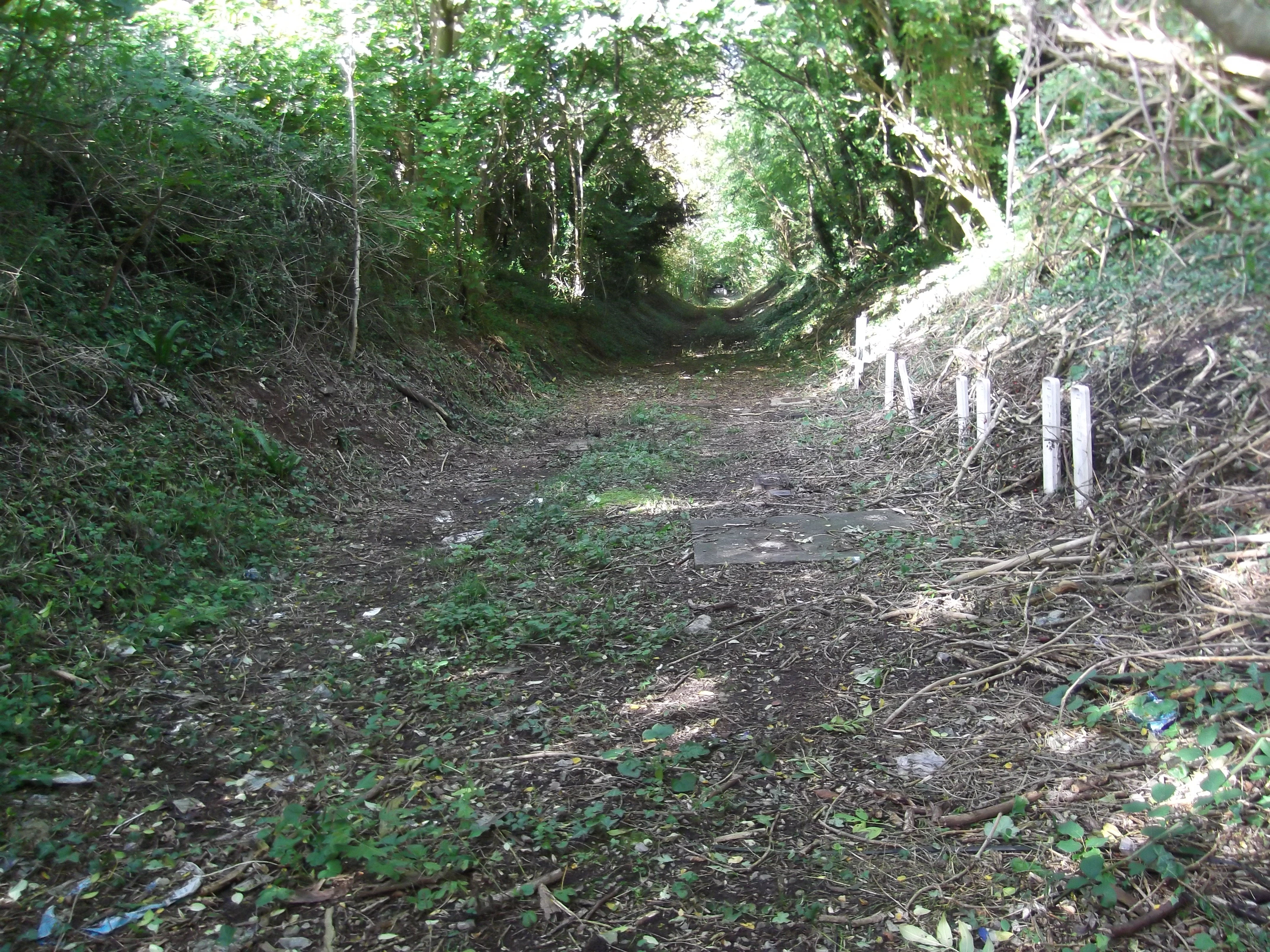 The trackbed of the Avon and Gloucestershire Railway near Willsbridge, Glos, UK